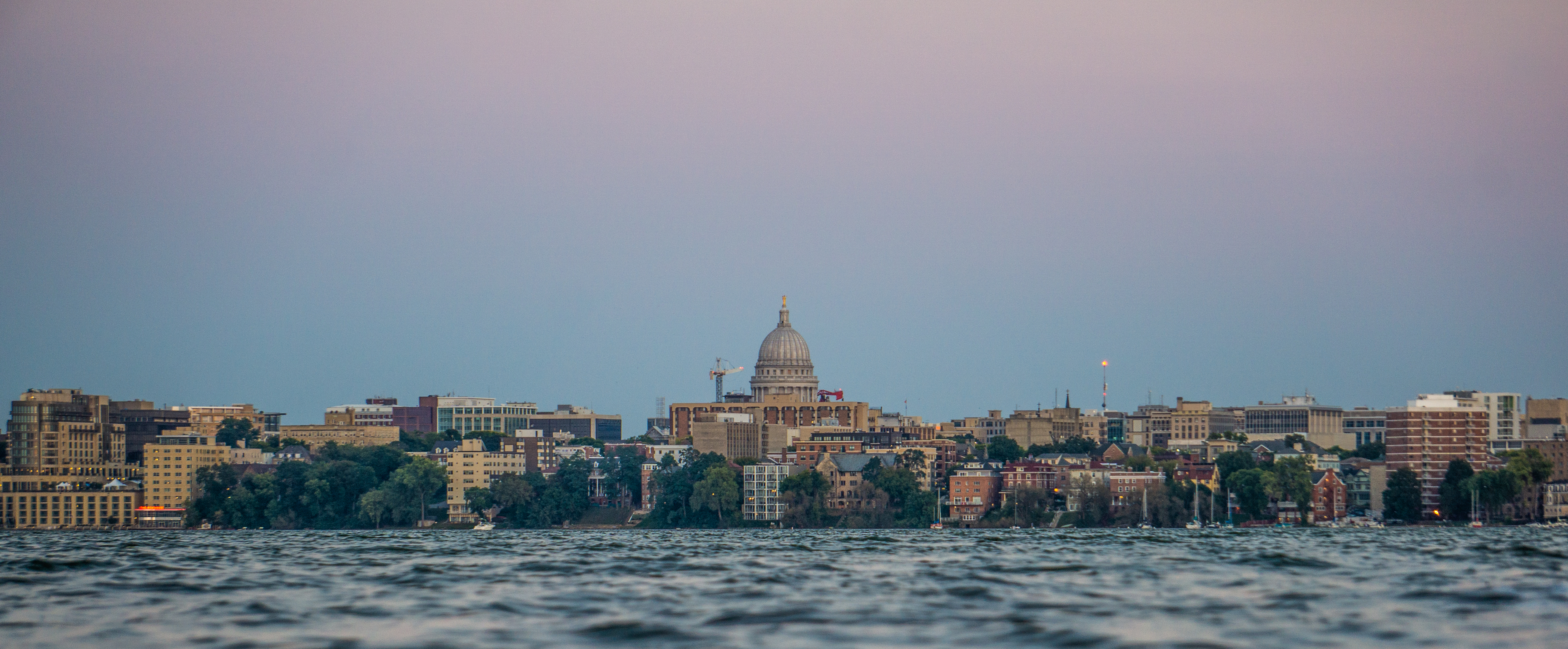 A view of the skyline of the Madison Isthmus and Lake Mendota from Picnic Point in Madison, Wisconsin.